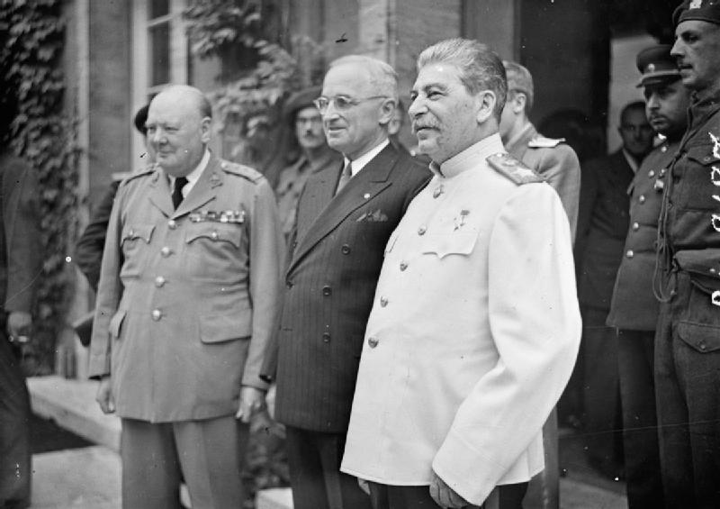 Winston Churchill, President Truman and Stalin at the Potsdam conference, 23 July 1945.